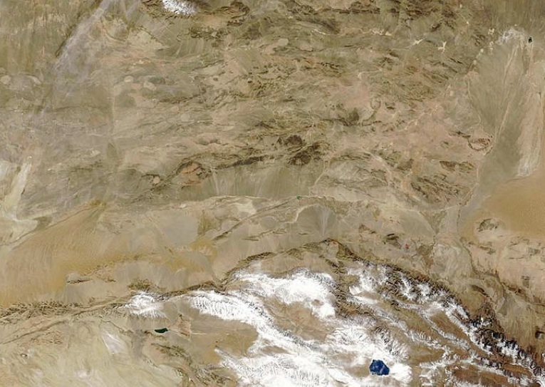 Satellite view of the Taklimakan and Badain Jaran deserts in northern China